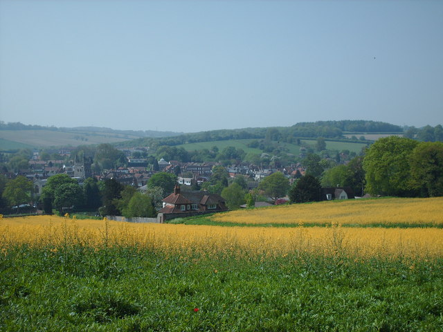 Old Amersham Taken from the edge of Parsonage Woods in 2006